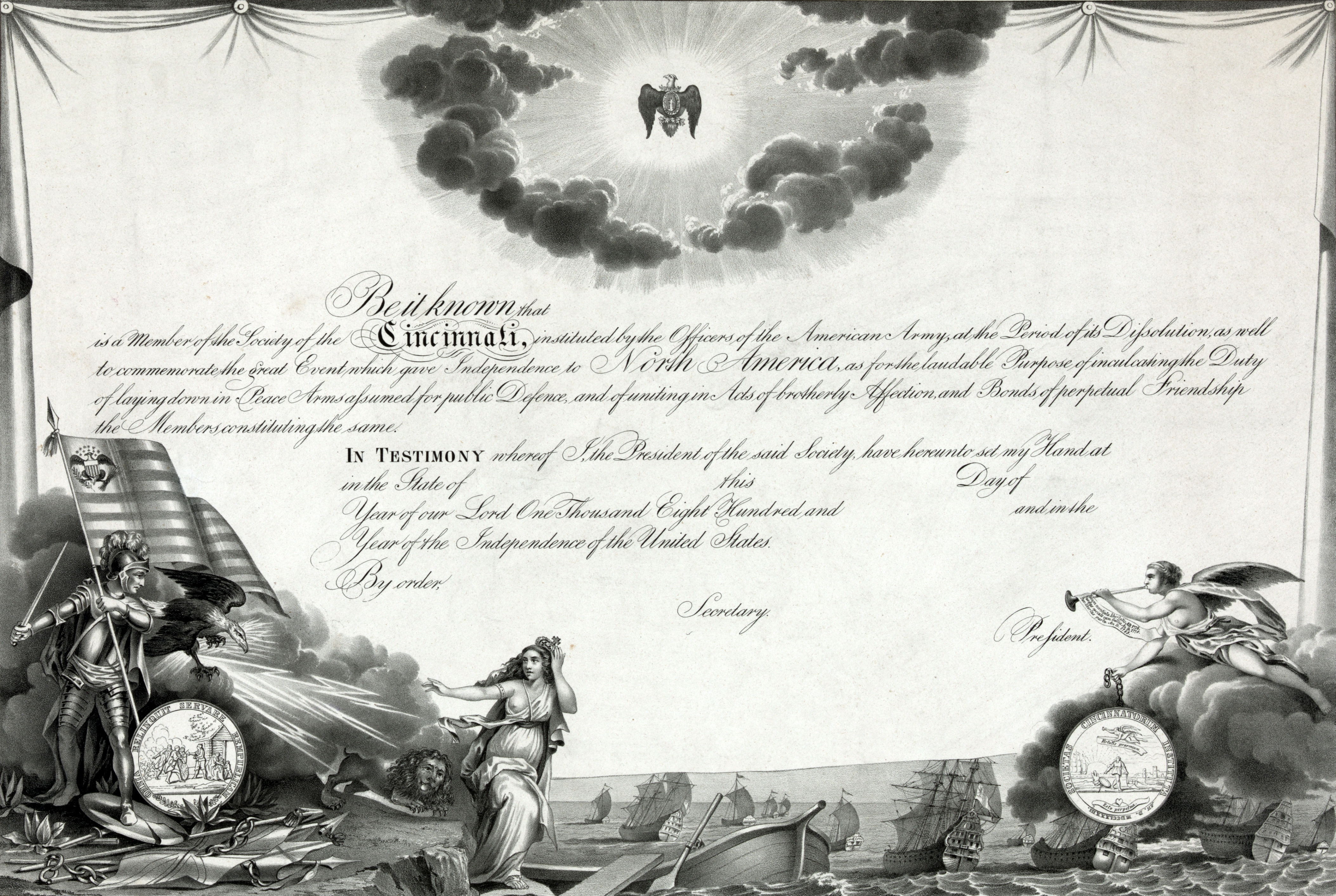 Society of the Cincinnati membership certificate. "Be it known that — is a Member of the Society of the Cincinnati, instituted by the Officers of the American Army, at the Period of its Dissolution, as well as to commemorate the great Event which gave Independence to North America, as for the laudable Purpose of inculcating the Duty of laying down in Peace Arms assumed for public Defence, and of uniting in Acts of brotherly Affection, and Bonds of perpetual Friendship the Members constituting the same. In Testimony whereof I, the President of the said Society, have hereunto set my Hand at — in the State of — this — Day of — Year of our Lord One Thousand Eight Hundred and — and in the Year of the Independence of the United States. By order, — Secretary."